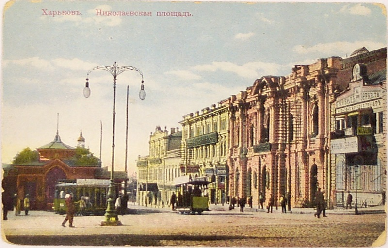 Nikolaevskaya Square in Kharkov, Russian Empire